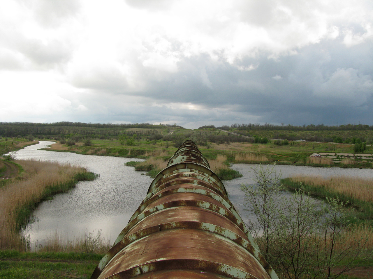 The pipe, which had to carry water of irrigation channel R-9 over the Molochna river.